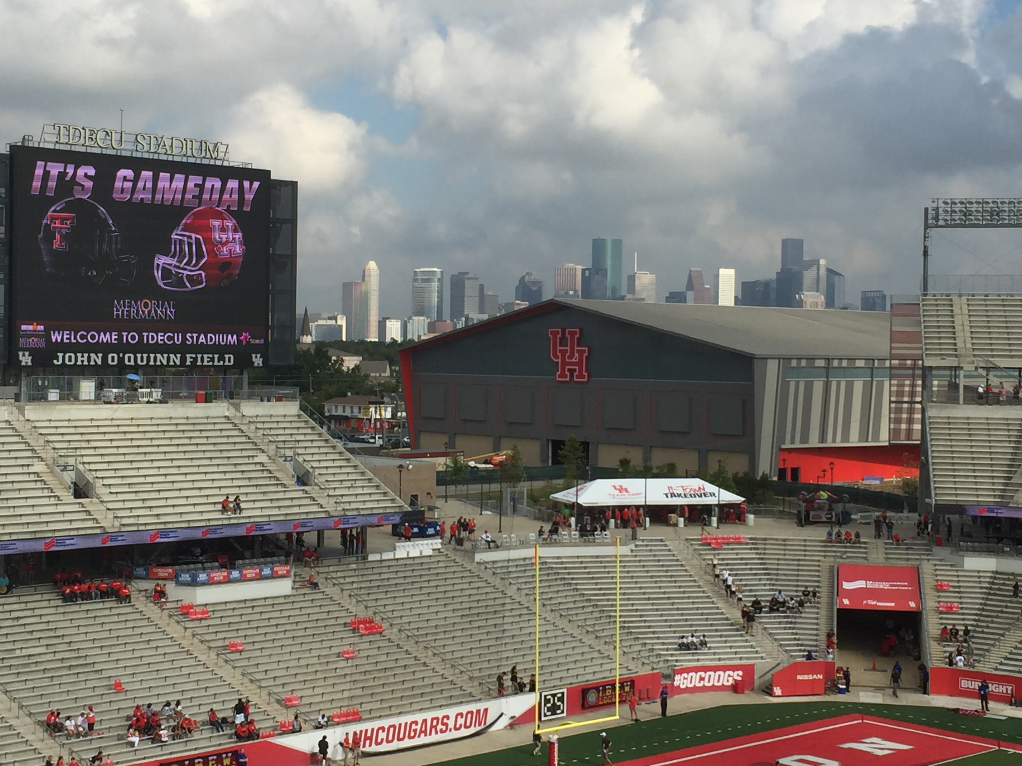 Houston IPF